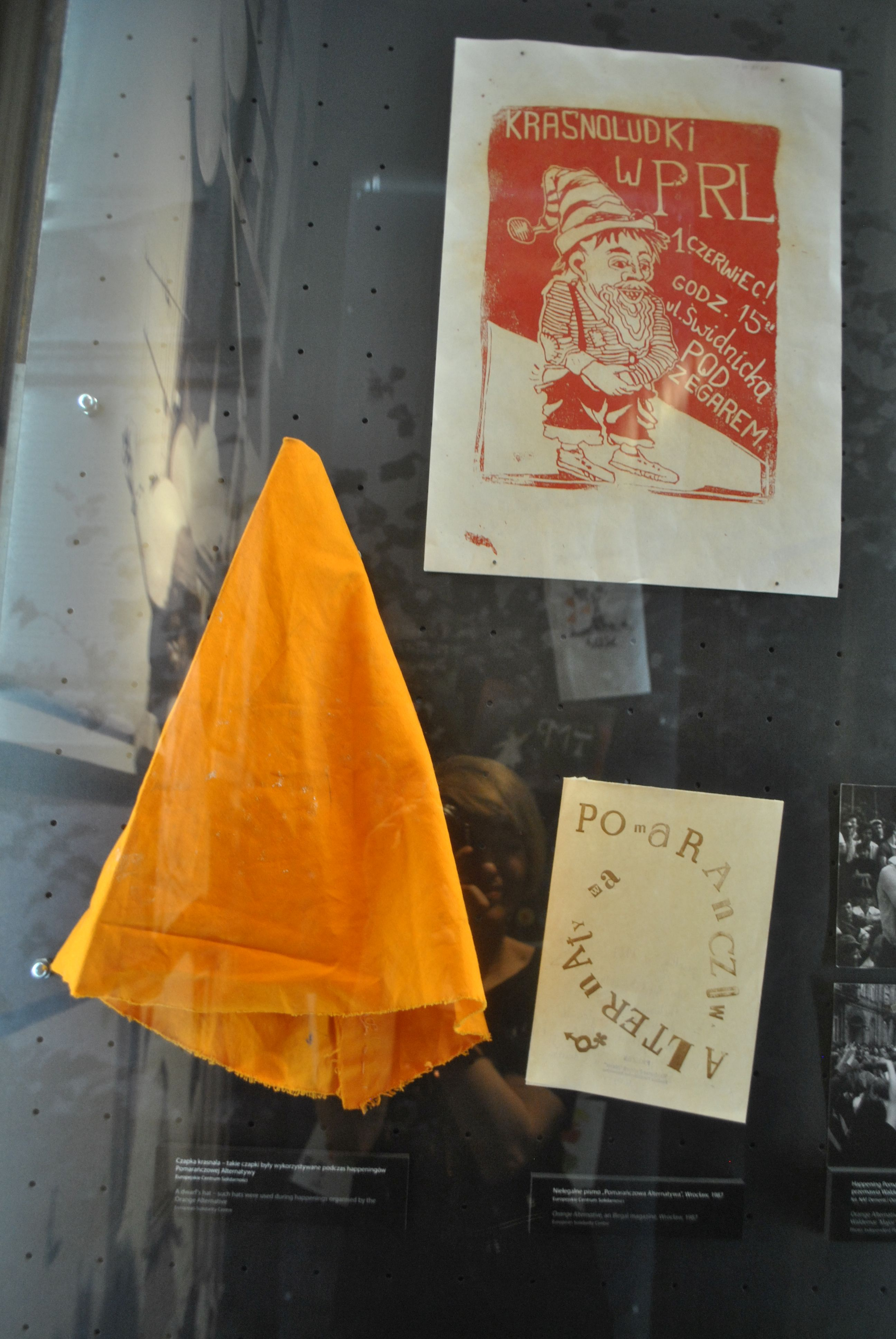 Exhibition room at European Solidarity Centre